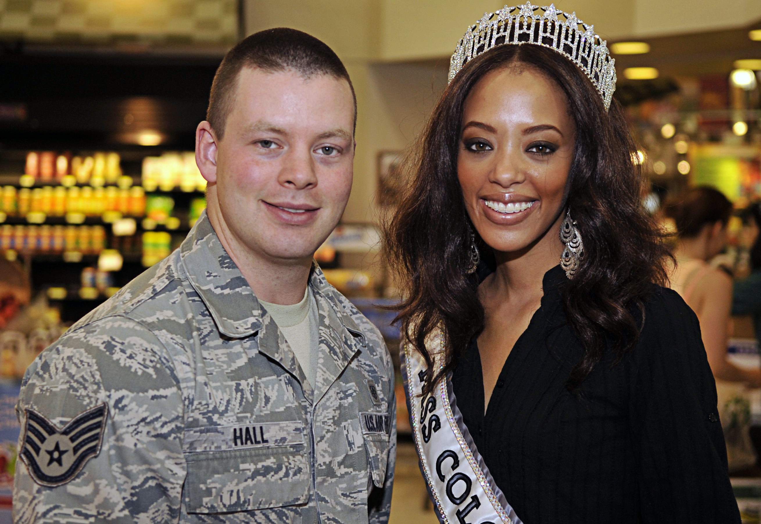 BUCKLEY AIR FORCE BASE, Colo. --Staff Sgt. Randy Hill, 460th Medical Group, and Blair Griffith, Miss Colorado speaks to customers at the Buckley Air Force Commissary Feb 19, 2011. Miss Colorado visited Buckley to spread awareness on the upcoming health awareness month which began in March.